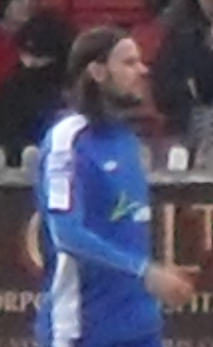 Chris Blackburn